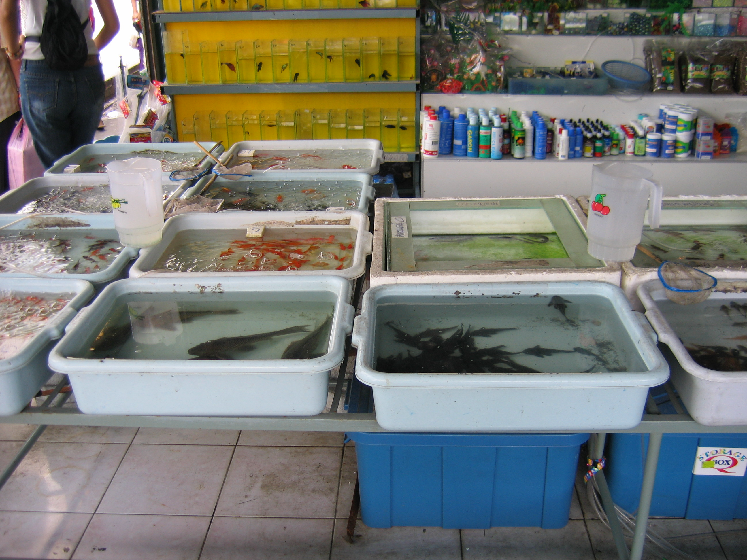 Chatuchak weekend market - Fish for sale at the animal section